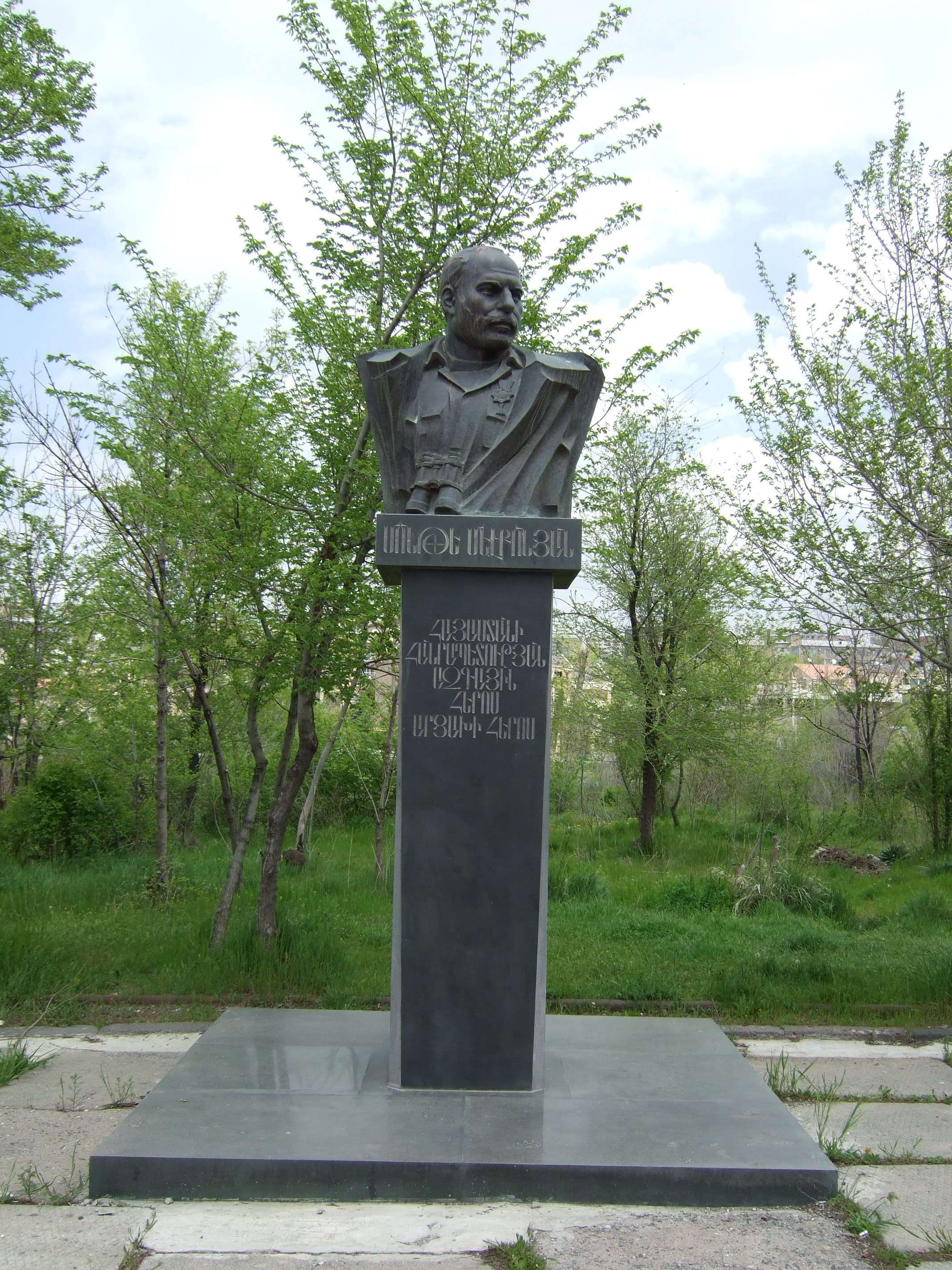 Monte Melkonian bust at Victory Park, Yerevan